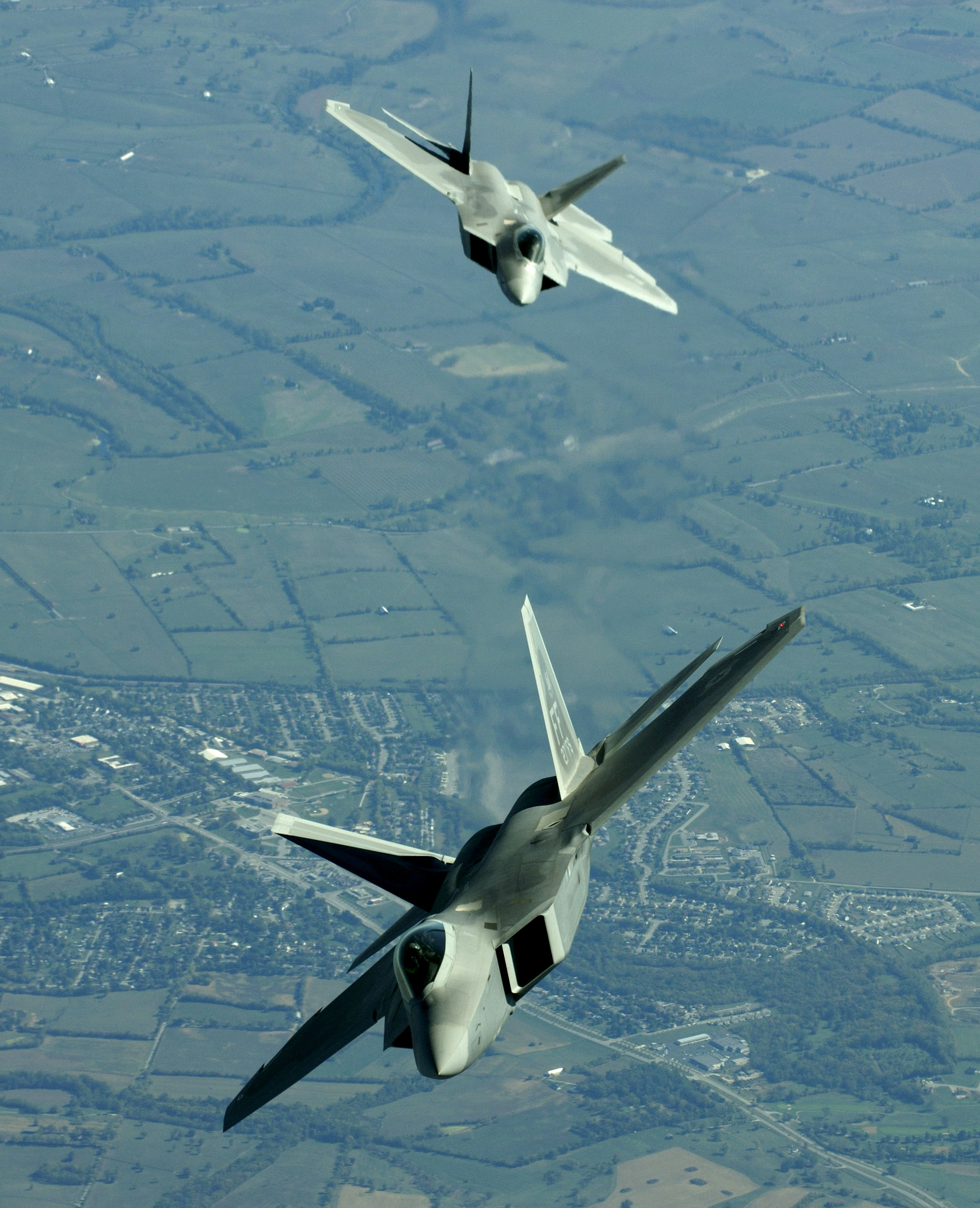 Pretty Raptors all in a rowCombat HammerOVER THE UNITED STATES -- Lt. Col. James Hecker (front) and Lt. Col. Evan Dertein line up their F/A-22 Raptor aircraft behind a KC-10 Extender to refuel while en route to Hill Air Force Base, Utah. Colonel Hecker commands the first operational Raptor squadron -- the 27th Fighter Squadron at Langley Air Force Base, Va. The unit went to Hill for operation Combat Hammer, the squadron's first deployment, Oct. 15. The deployment has a twofold goal: complete a deployment and generate a combat-effective sortie rate away from home. (U.S. Air Force photo by Tech. Sgt. Ben Bloker)